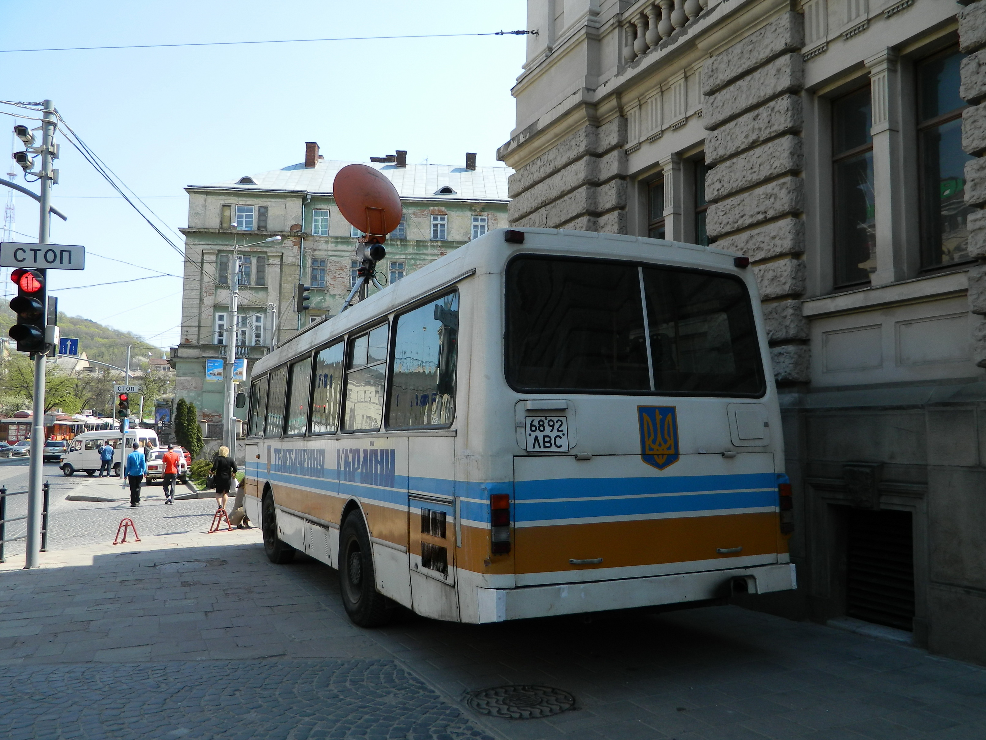 LAZ 42021 bus in Lviv. Works as a TV transmitting station. Built approximately 1991.